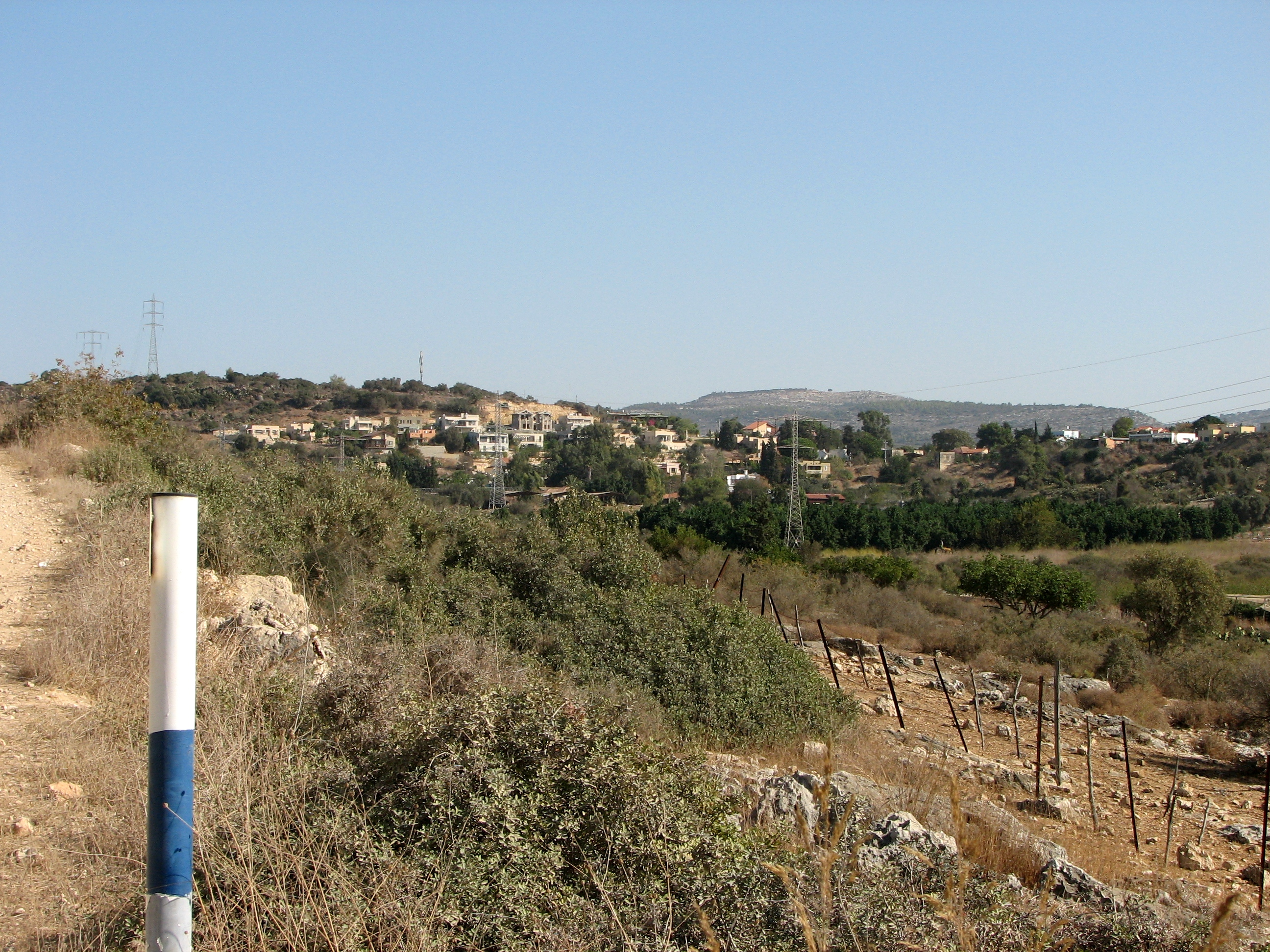 Kerem Maharal is a moshav in northern Israel.